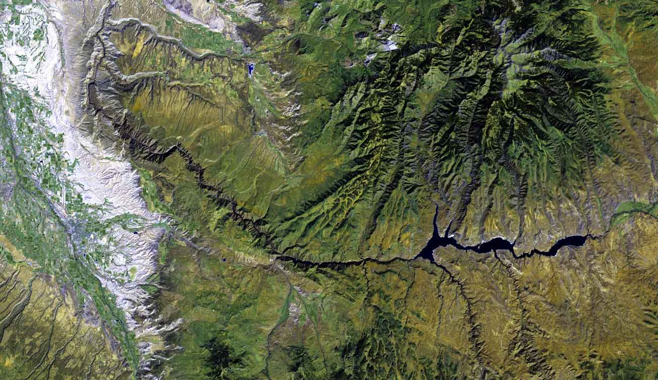 The raw satellite imagery shown in these images was obtain from NASA and/or the US Geological Survey. Post-processing and production by